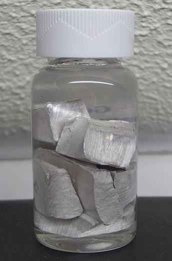 Chunks of sodium in a vial